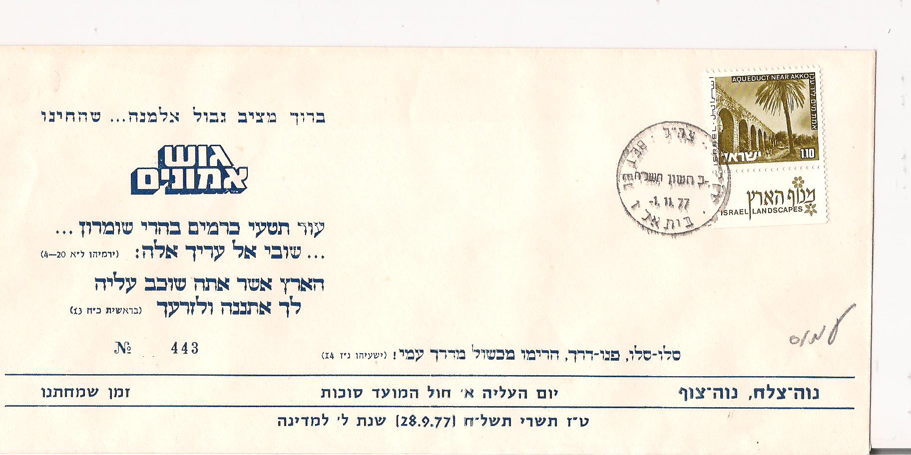 first day special envelope